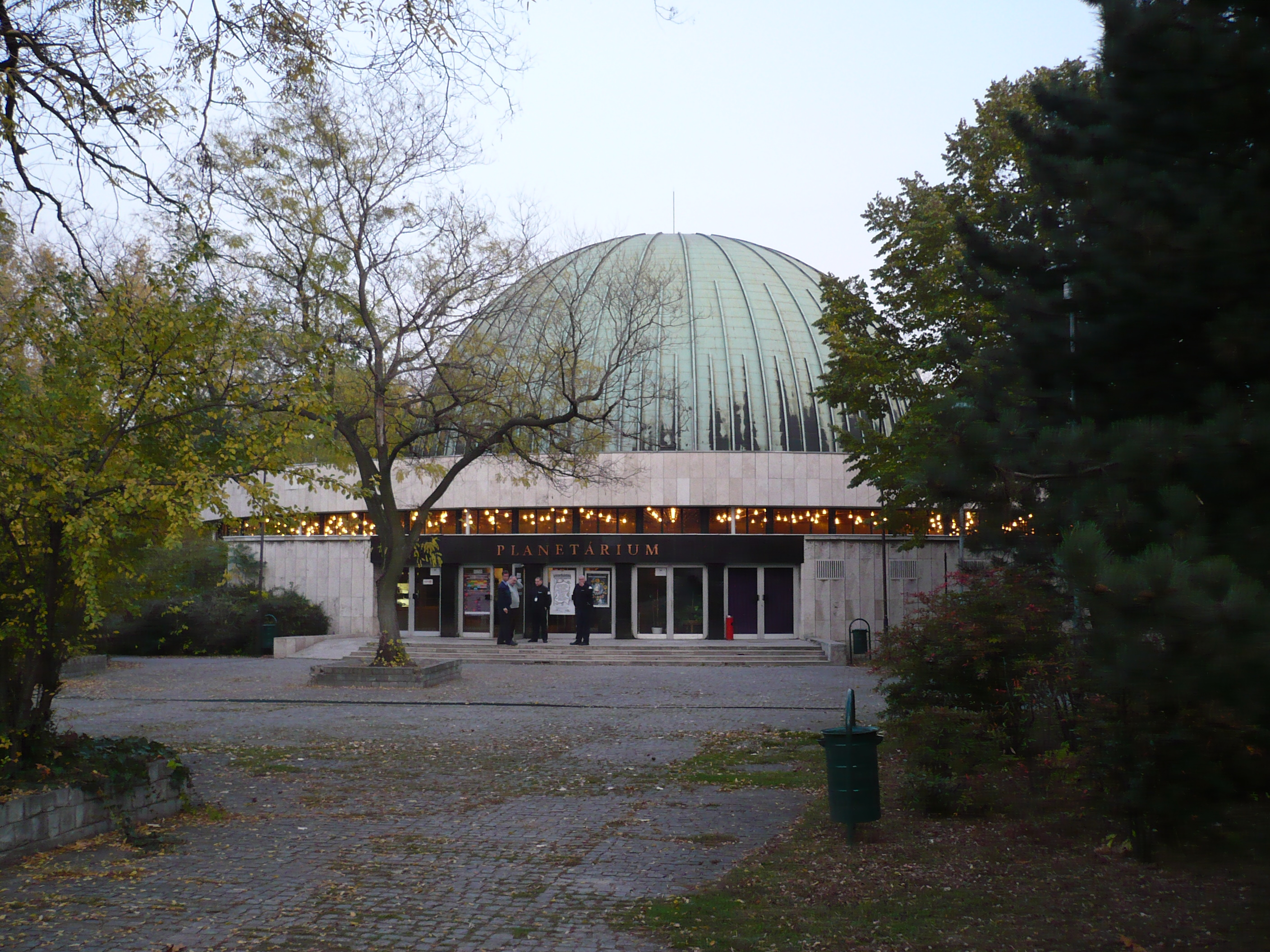 Planetárium in Budapest